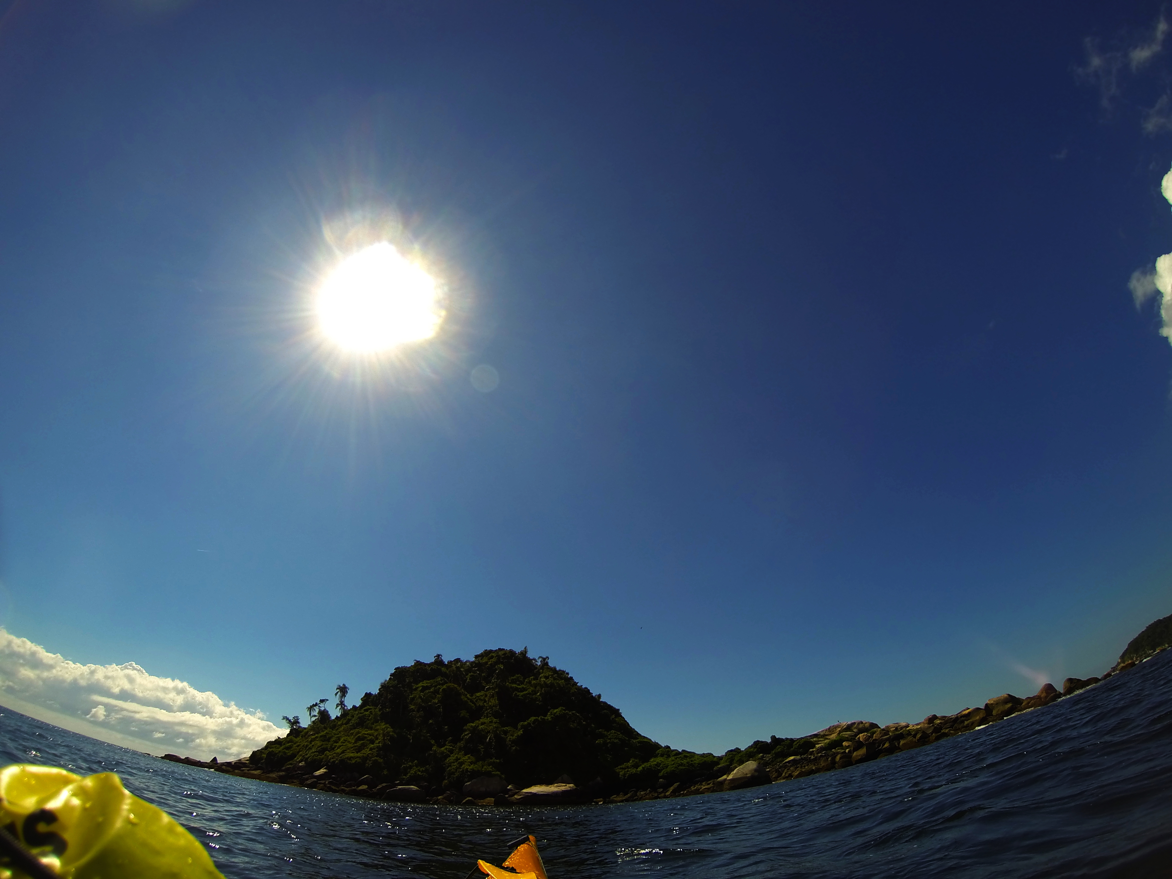 Mandigituba Island, Sao Francisco do Sul, Brazil